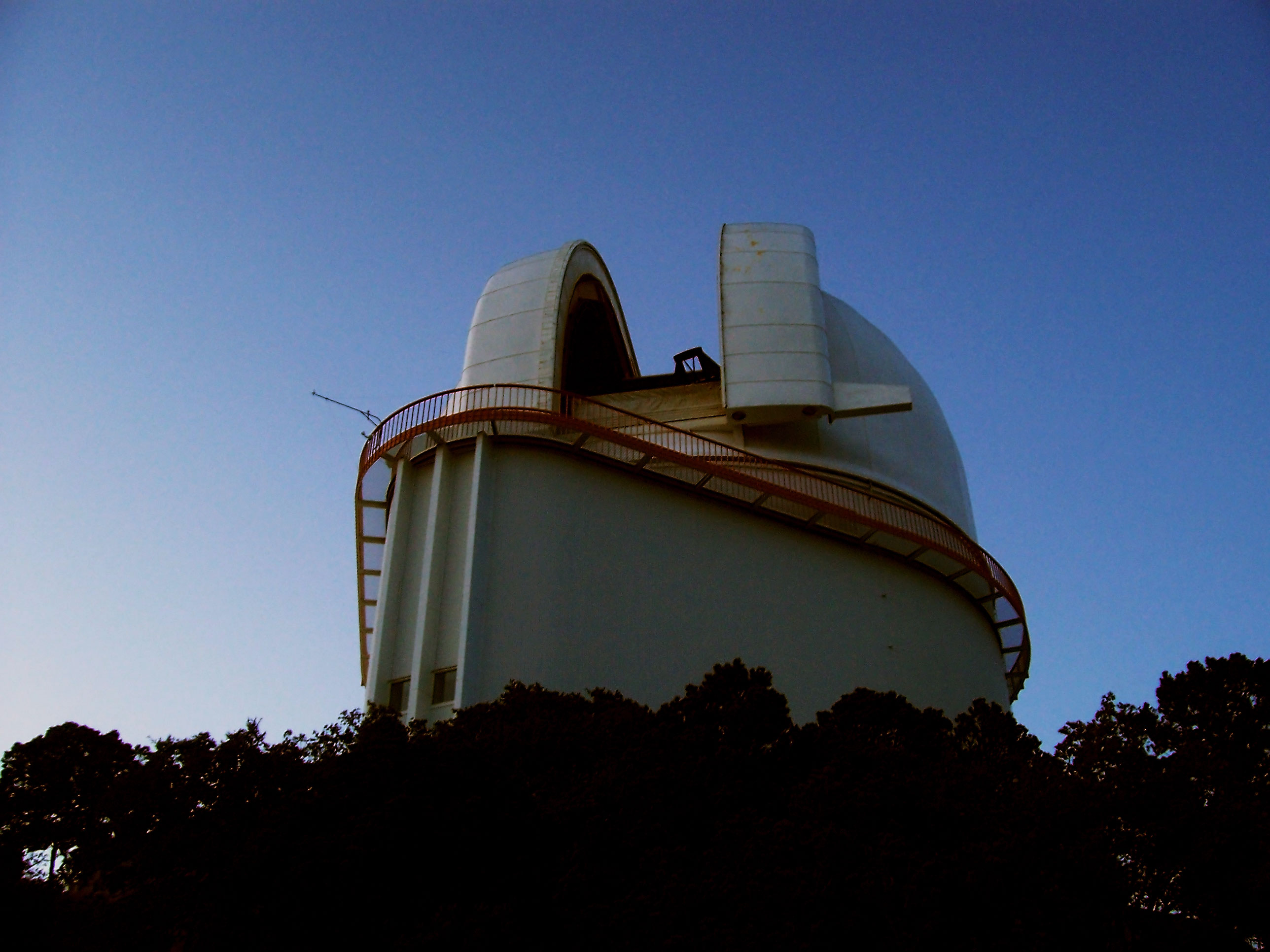 107-inch at dusk